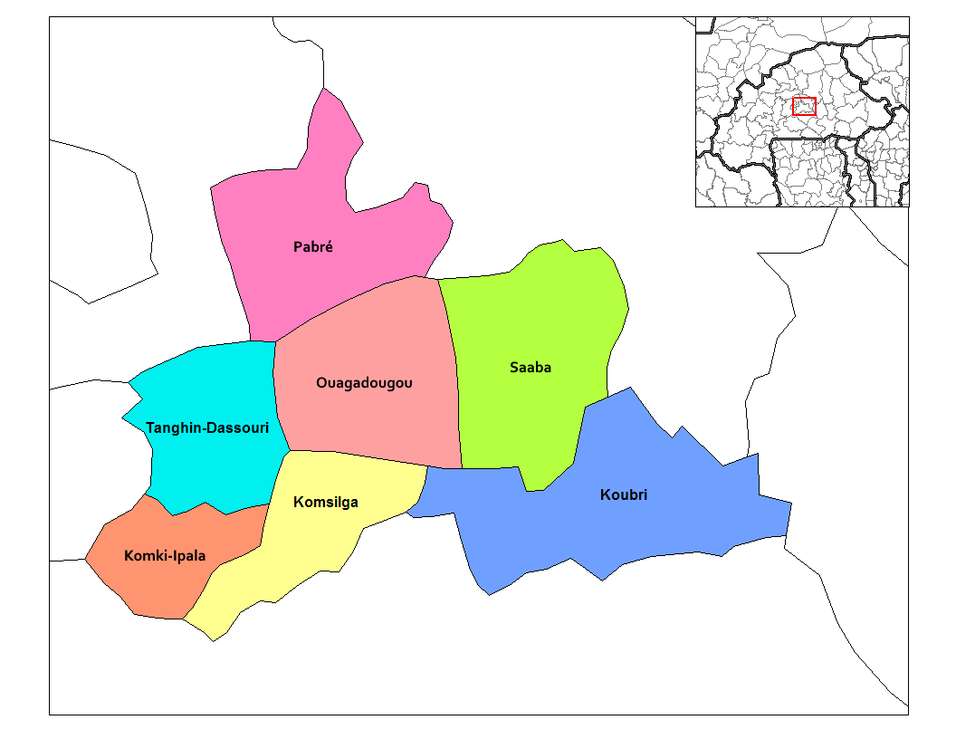 This map has been uploaded by Osiris fancy from to enable the Wikimedia Atlas of the World. Original uploader to was Rarelibra. Osiris fancy is not the creator of this map. Licensing information is below. Map of the departments of Kadiogo province in Burkina Faso. Created by Rarelibra 03:21, 30 September 2006 (UTC) for public domain use, using MapInfo Professional v8.5 and various mapping resources.